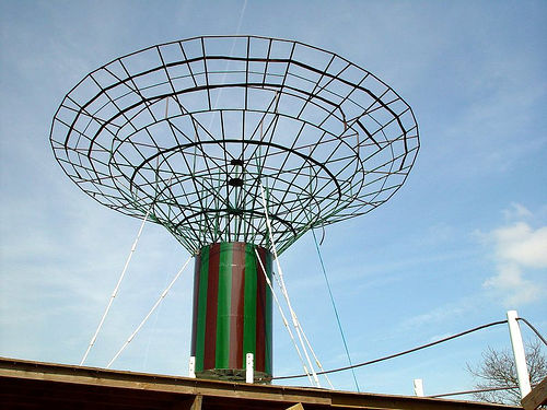 The Silsden 8m CFA in-situ on the 5m agl platform.